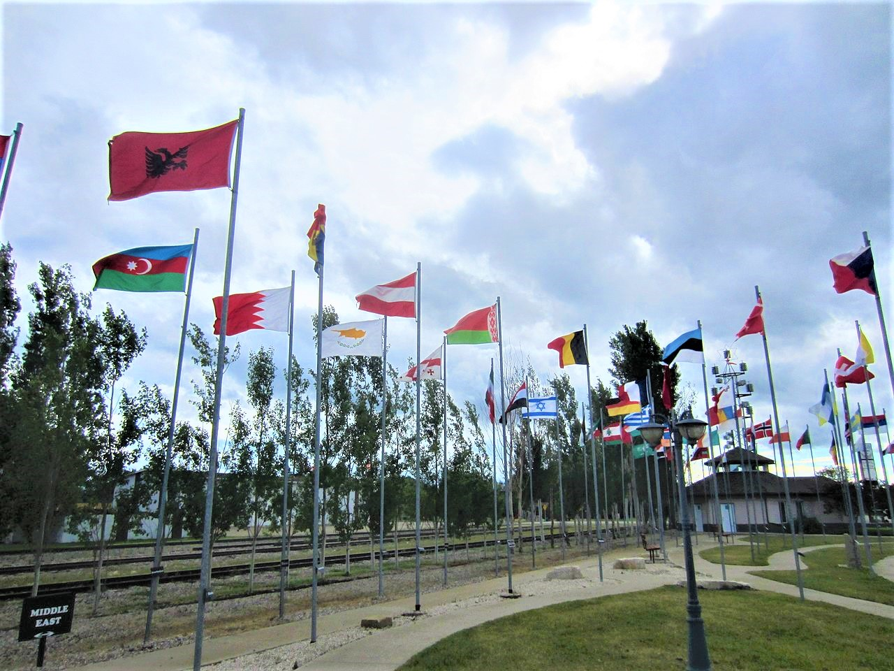 Nygard Park at Deloraine Manitoba, named in honor of the Nygard family who emigrated to this area